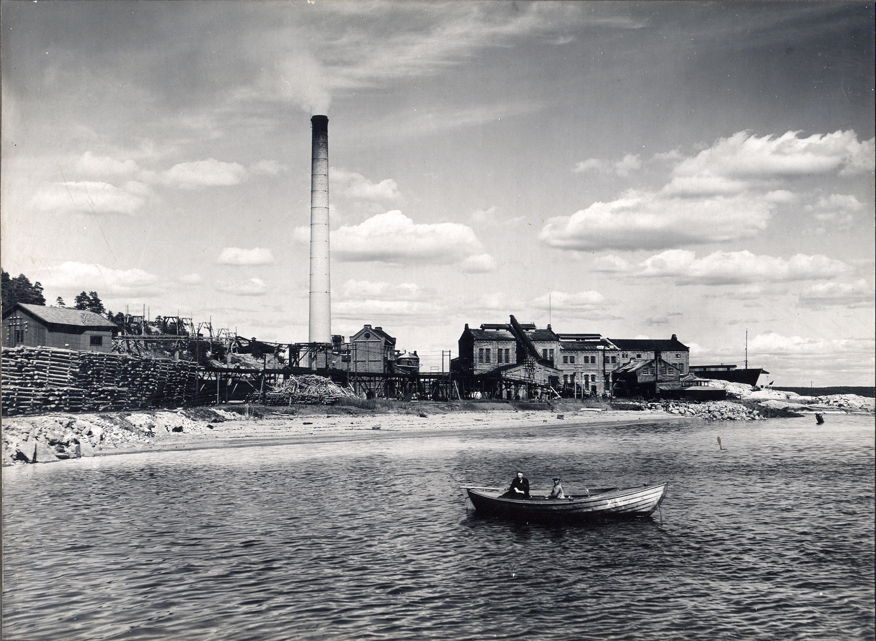 Hurum fabriker A/S - Cellulose factory built 1907